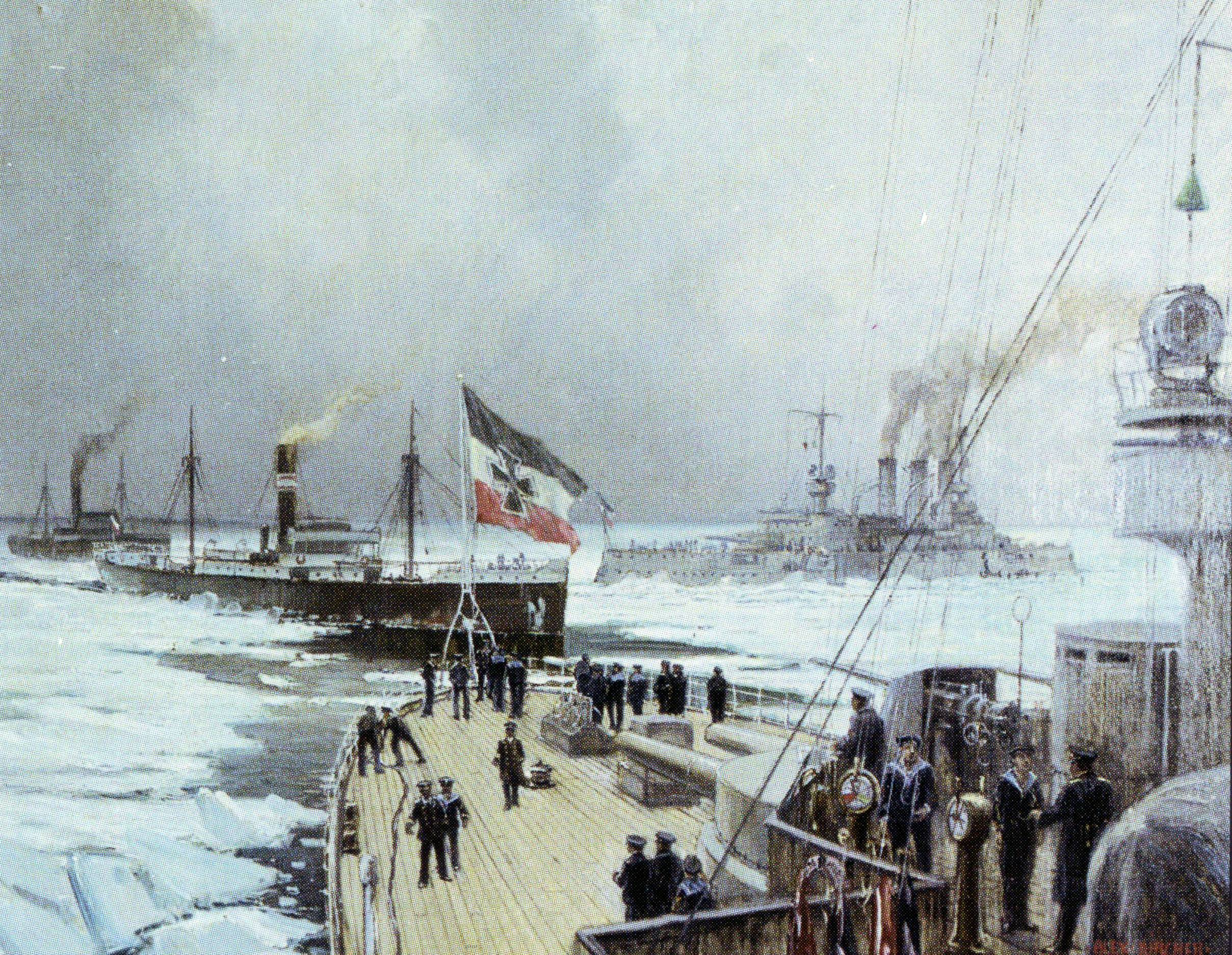 Imperial Fleet.